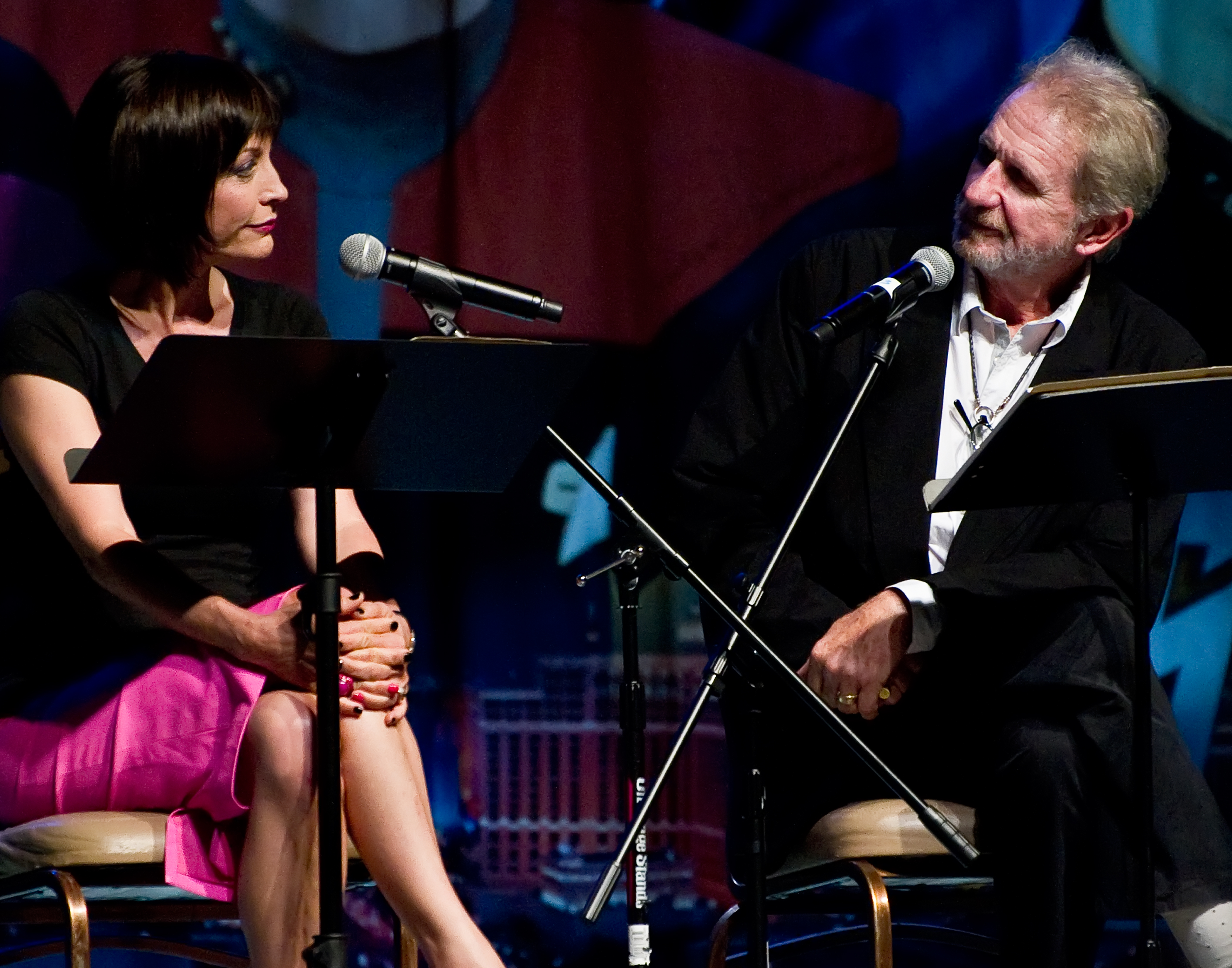 Nana Visitor and René Auberjonois at the 2011 Star Trek convention in Las Vegas.